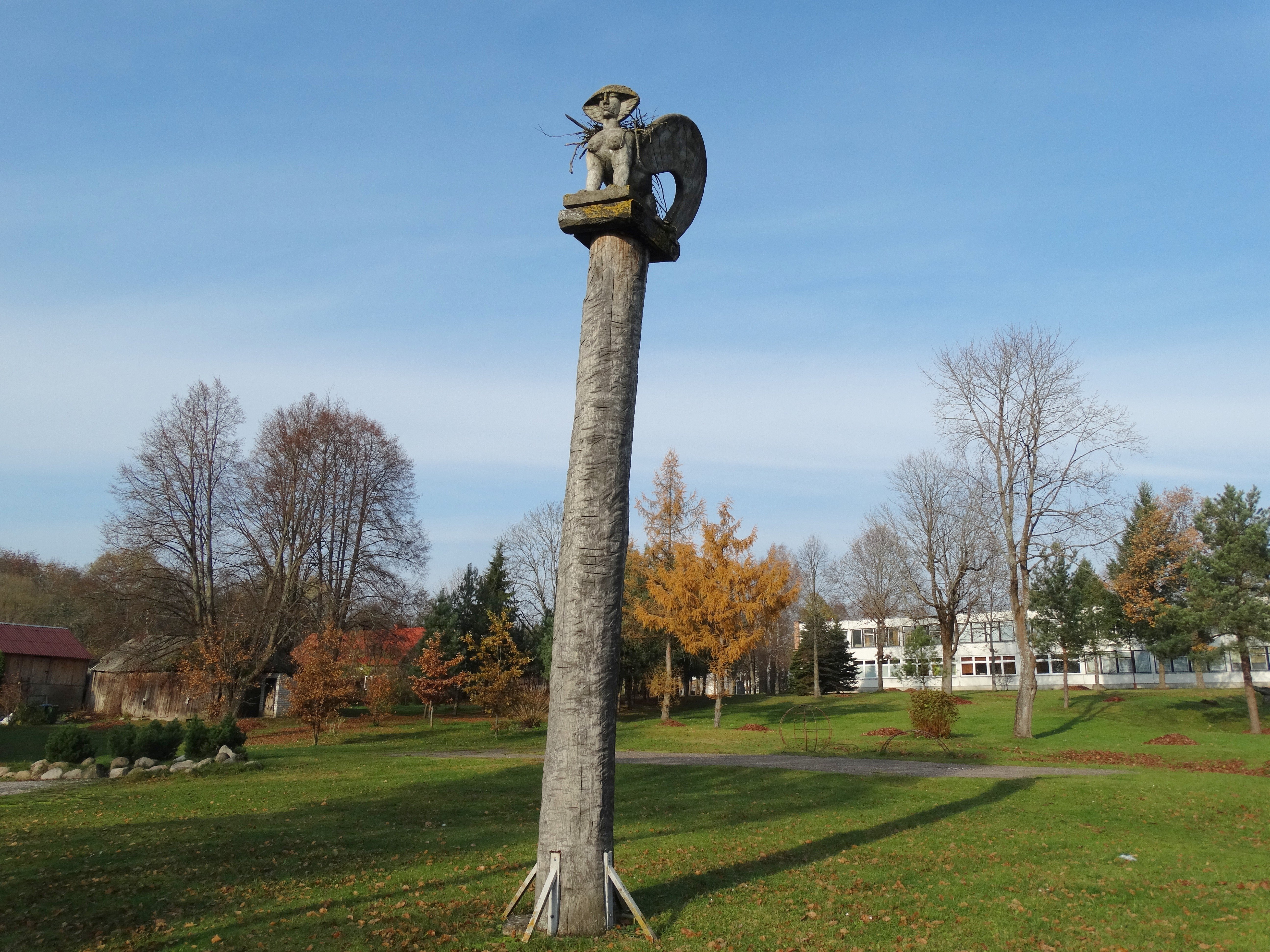 Wood-carved sculpture, Smalininkai, Jurbarkas District, Lithuania